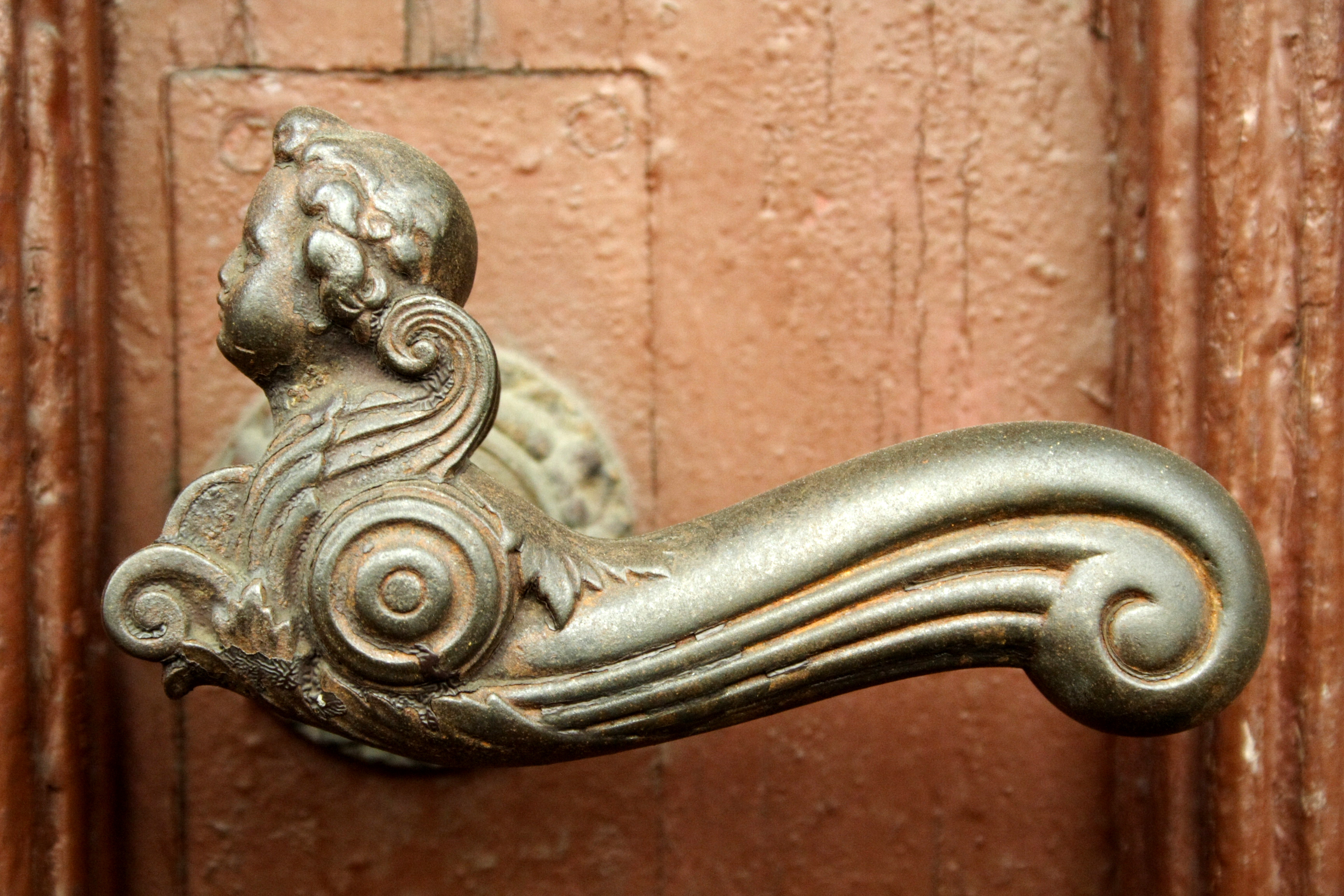 Doorhandle in old house dating back to 2nd half of 19th century